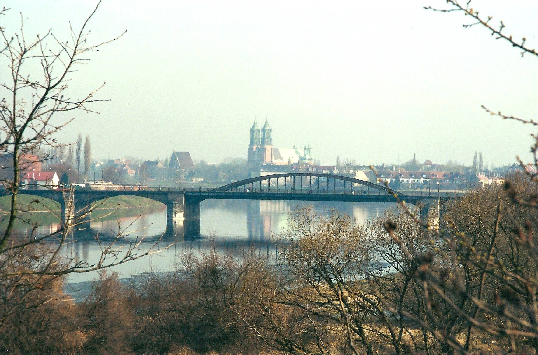 Bridge of Saint Roch in Poznań and Archicatedral Basilica, year 2000